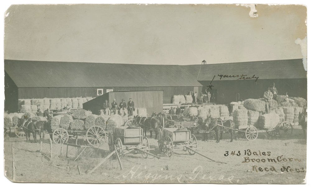 Title: Higgins, Texas. Date: ca. 1907-1918 Part Of: Collection of real photographic postcards of Texas Place: Higgins, Lipscomb County, Texas Physical Description: 1 photographic print (postcard) File: ag2005_0001_01_152_c_higgins_opt.jpg Rights: Please cite DeGolyer Library, Southern Methodist University when using this file. A high-resolution version of this file may be obtained for a fee. For details see the web page. For other information, . For more information, View Texas: Photographs, Manuscripts, and Imprints